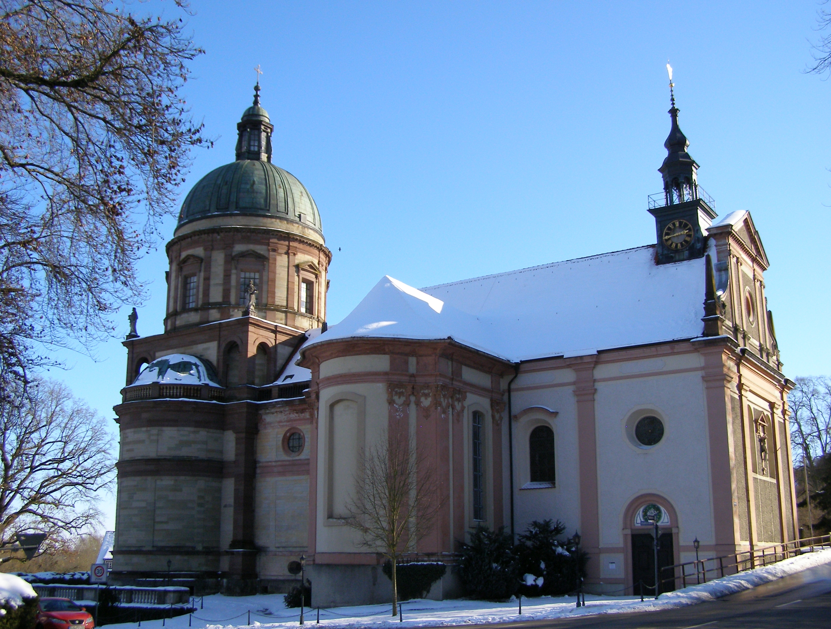 Sigmaringen - Hedinger Church